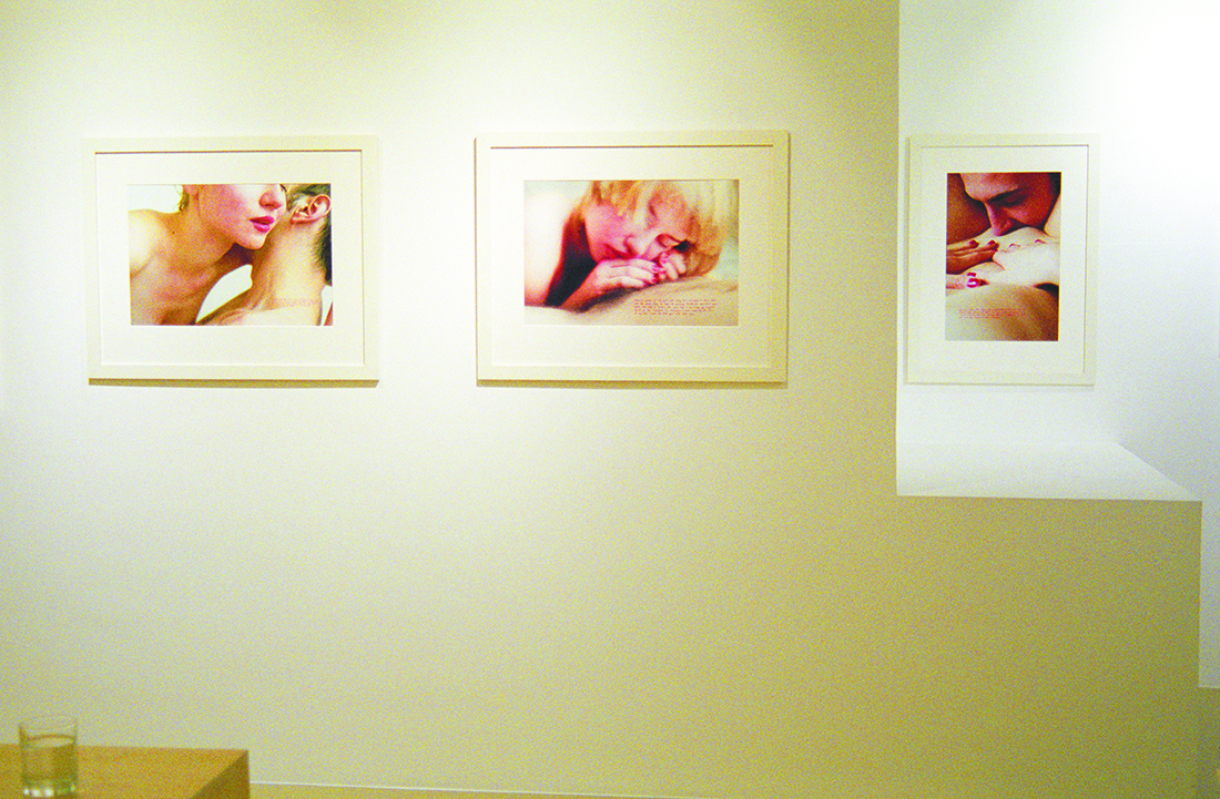 Agnes Janich, "That You Have Someone", installation shot, Galerie Walter Keller, Zurich, Switzerland, 2013